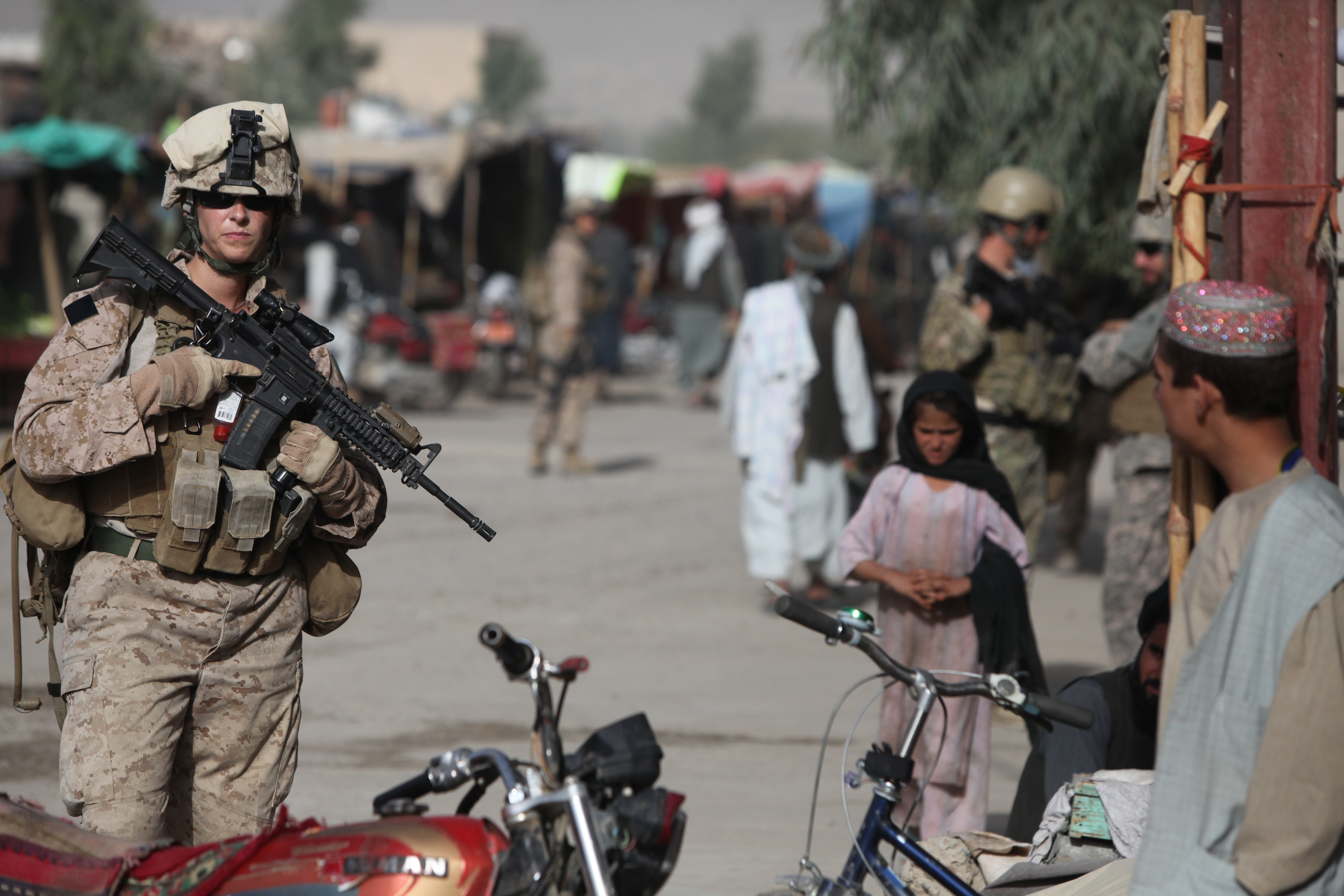 HELMAND, Afghanistan (Aug. 2, 2010) Hospital Corpsman 2nd Class Claire E. Ballante, left, assigned to the Female Engagement Team (FET), patrols with 1st Battalion 2d Marines in Musa Qa'leh, Afghanistan. Members of the FET are building relationships with Afghan citizens by providing health assistance, hygiene supplies, and a security presence to support of the International Security Assistance Force. (U.S. Marine Corps photo by Cpl. Lindsay L. Sayres/Released)